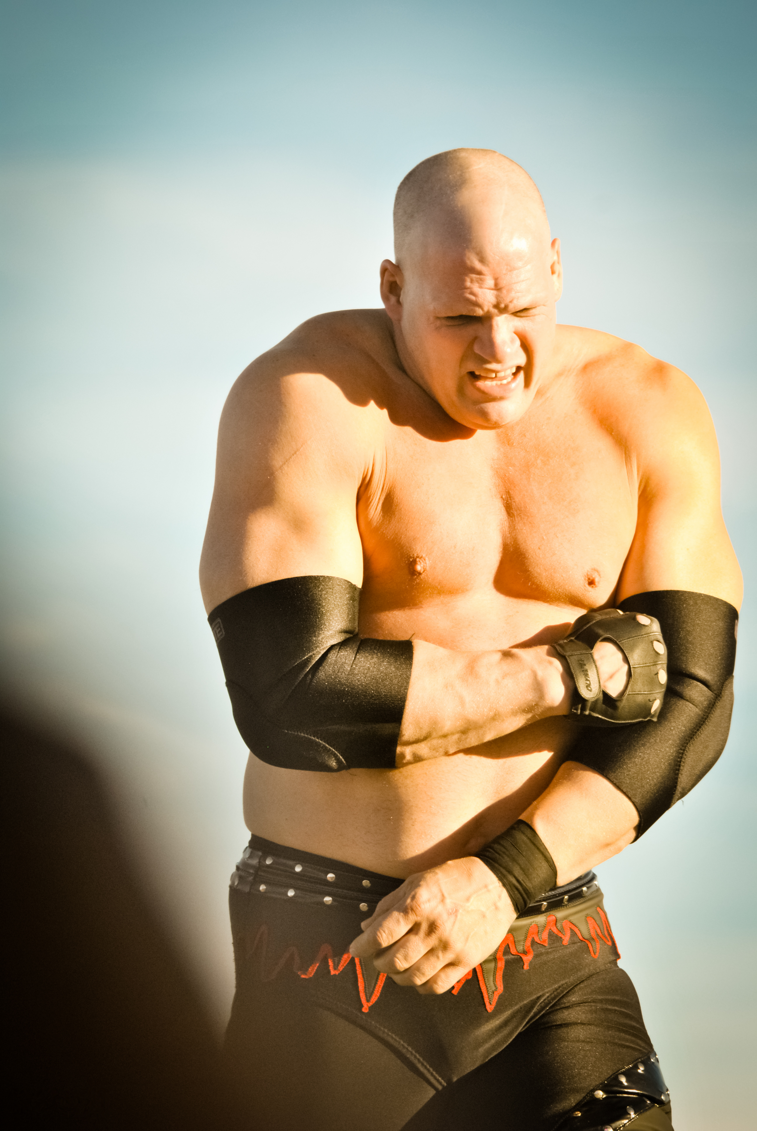 Glenn Jacobs (Kane) at WWE's Tribute to the Troops event on December 11, 2010 in Fort Hood, Texas.